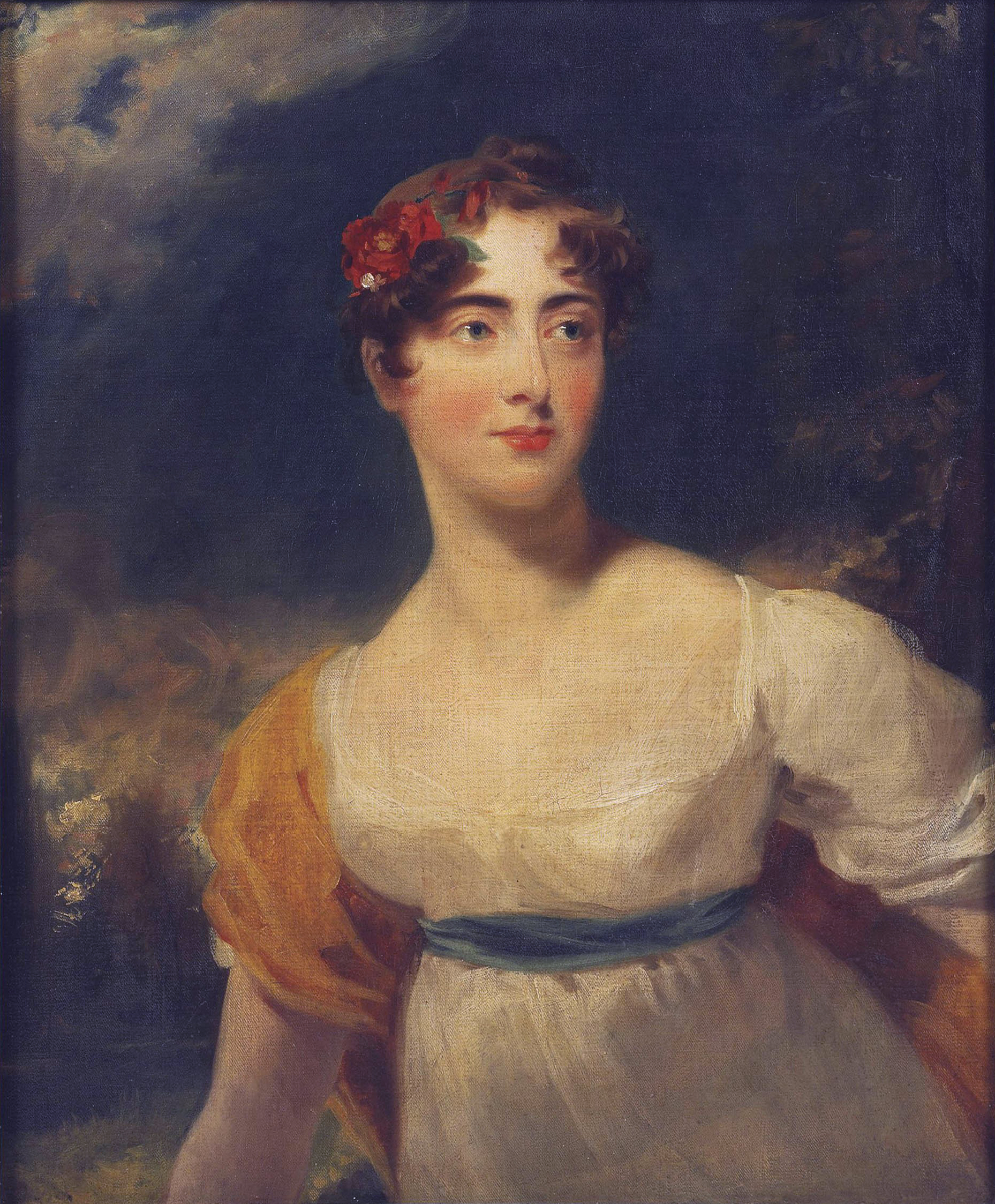 Emily Harriet Wellesley-Pole, Lady FitzRoy Somerset (1792-1881) oil on canvas 76.2 x 63.5 cm after the painting in the Hermitage, St. Petersburg